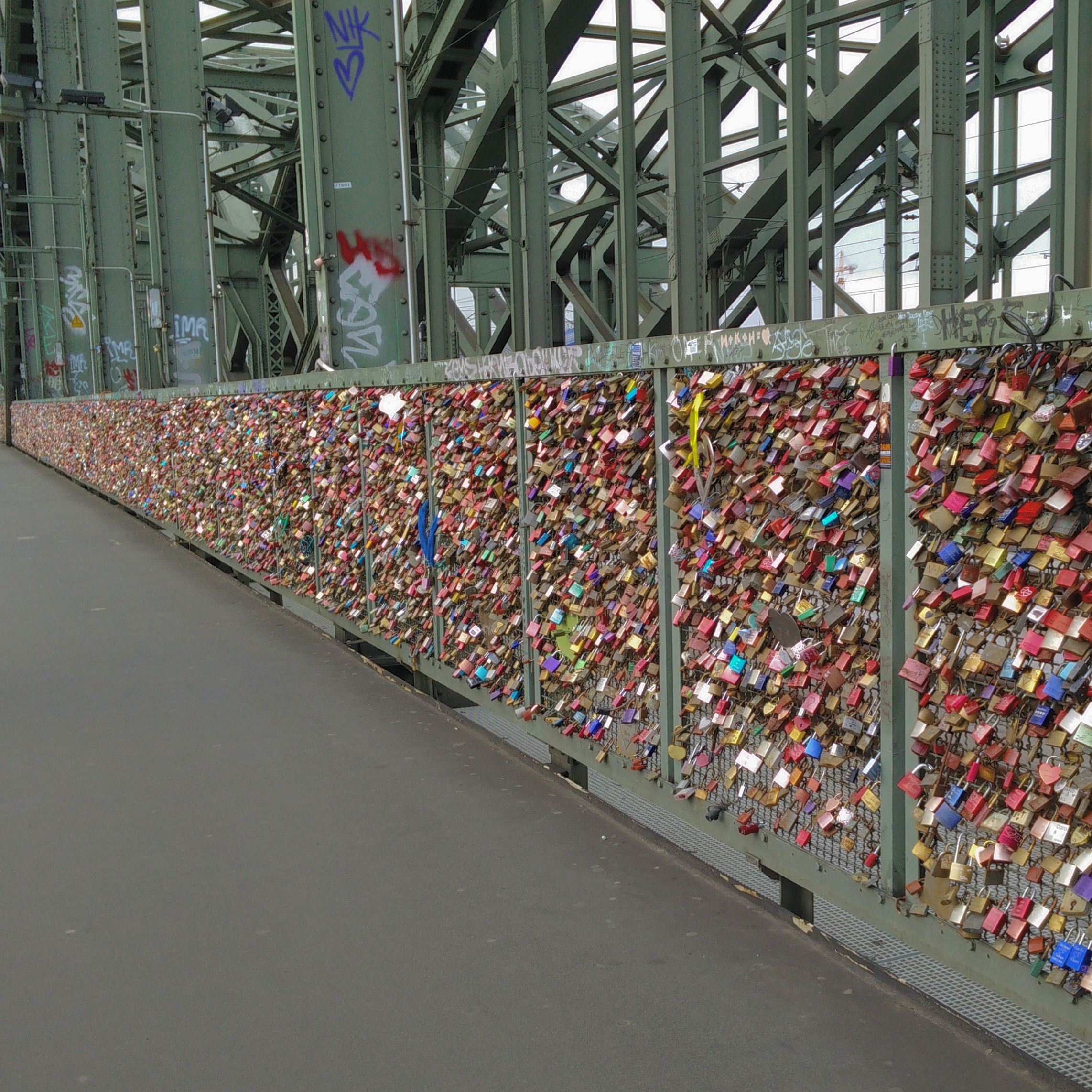 Love padlocks at Hohenzollernbrücke.